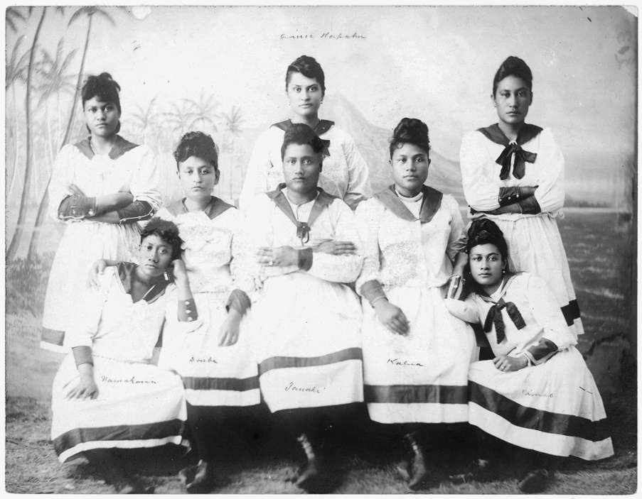 Queen Liliuokalani's Lei Mamo Singing Girls before they left for the Chicago World's Fair. Seated left to right: Namahana, Ms. Grube, Lizzie Puahi, Kalua, and Pinao. Standing left to right: Unknown, Jennie Kapahu, Unknown.